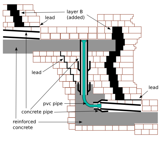 A sketch of Borobudur restoration plan in 1973 to improve its drainage system.